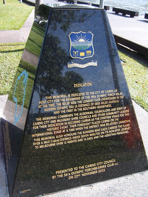 1956_Summer_Olympics Olympic Flame Relay monument, Cairns, Queensland, Australia. Sited on the waterfront.